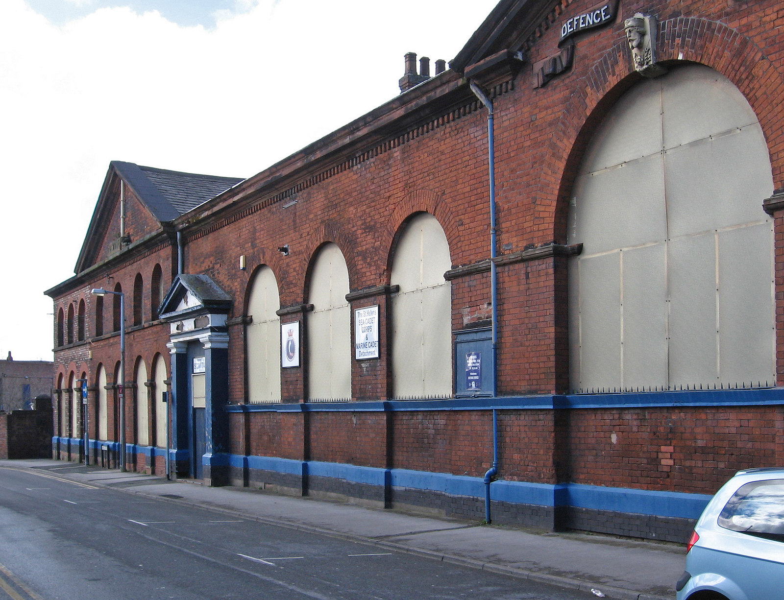 St Helens, Mill Street Barracks, from east